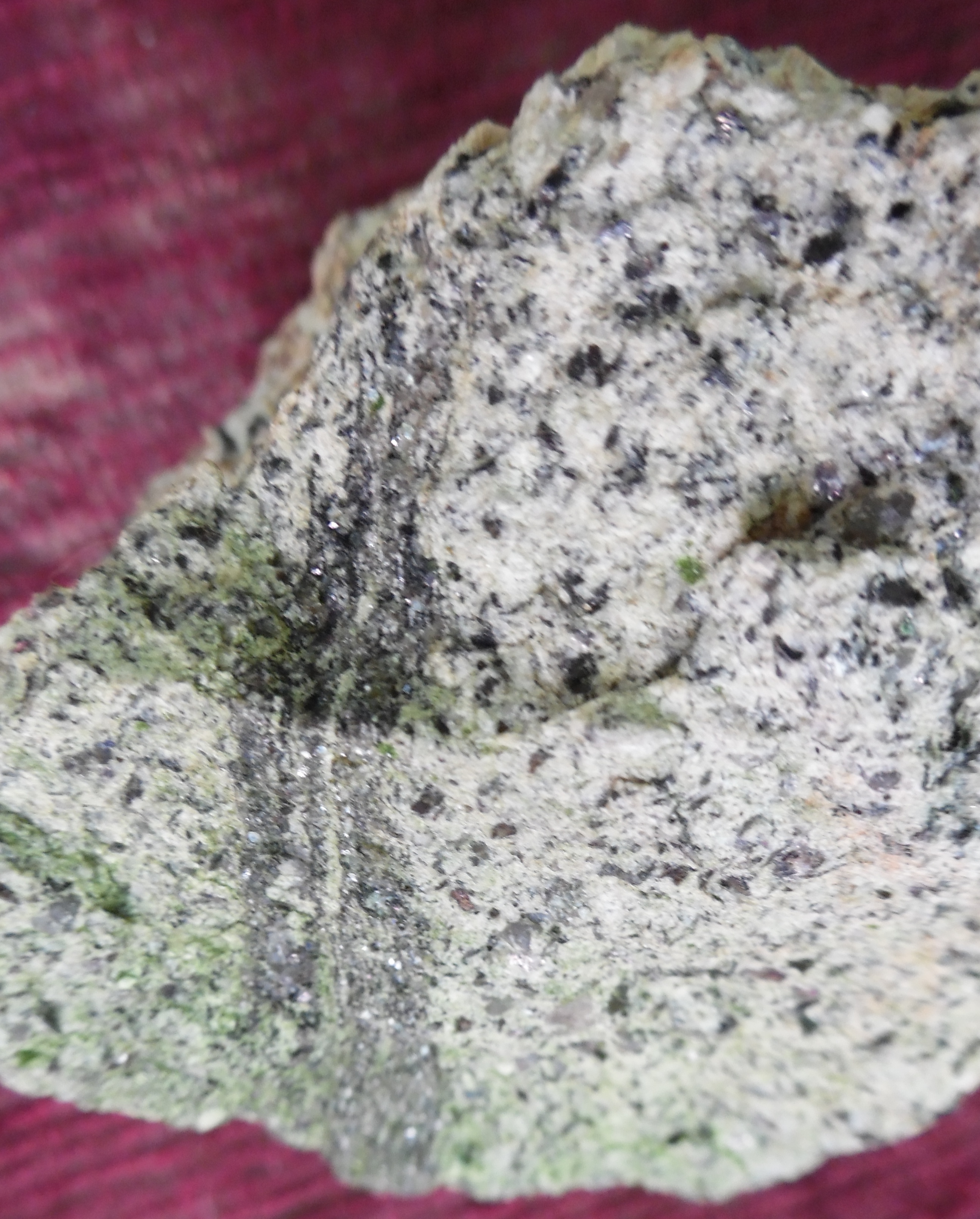 The leucogranite has engulfed micaschists from his host rock.